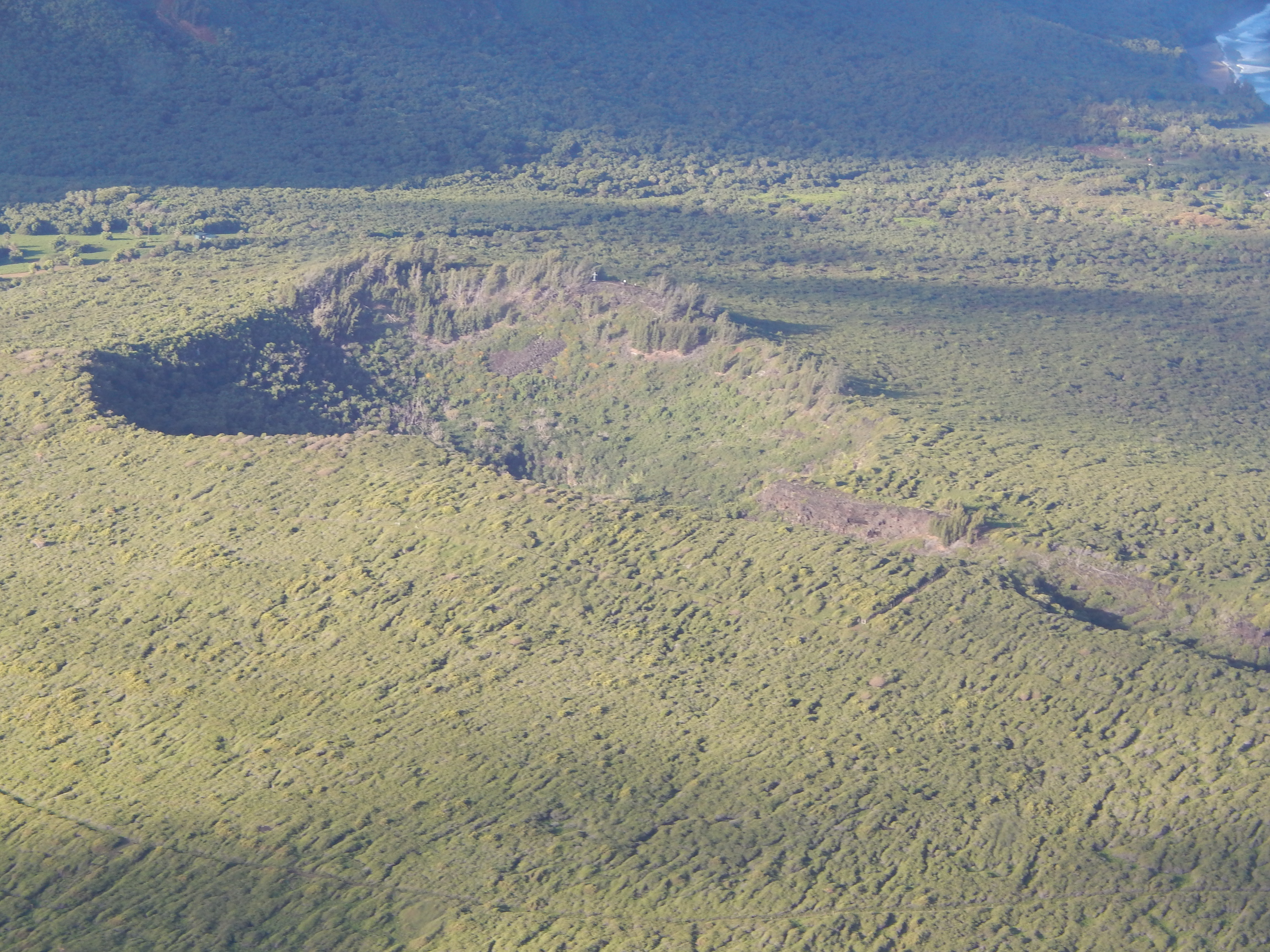 Casuarina equisetifolia (Ironwood) Aerial view Kalaupapa and Kauhako Crater at North Coast, Molokai, Hawaii. October 25, 2014 #141025-2369 Image Use Policy